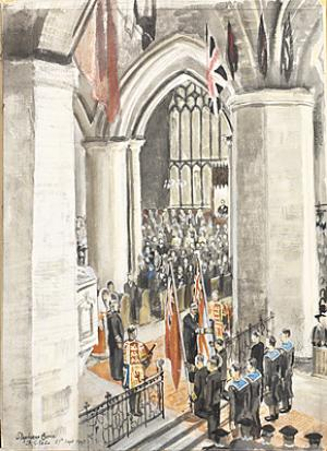 Admiral of the Fleet Lord Cunningham of Hyndhope, KT, GCB, DSO presenting the White Ensign worn by "HMS Warspite", Edinburgh 1945